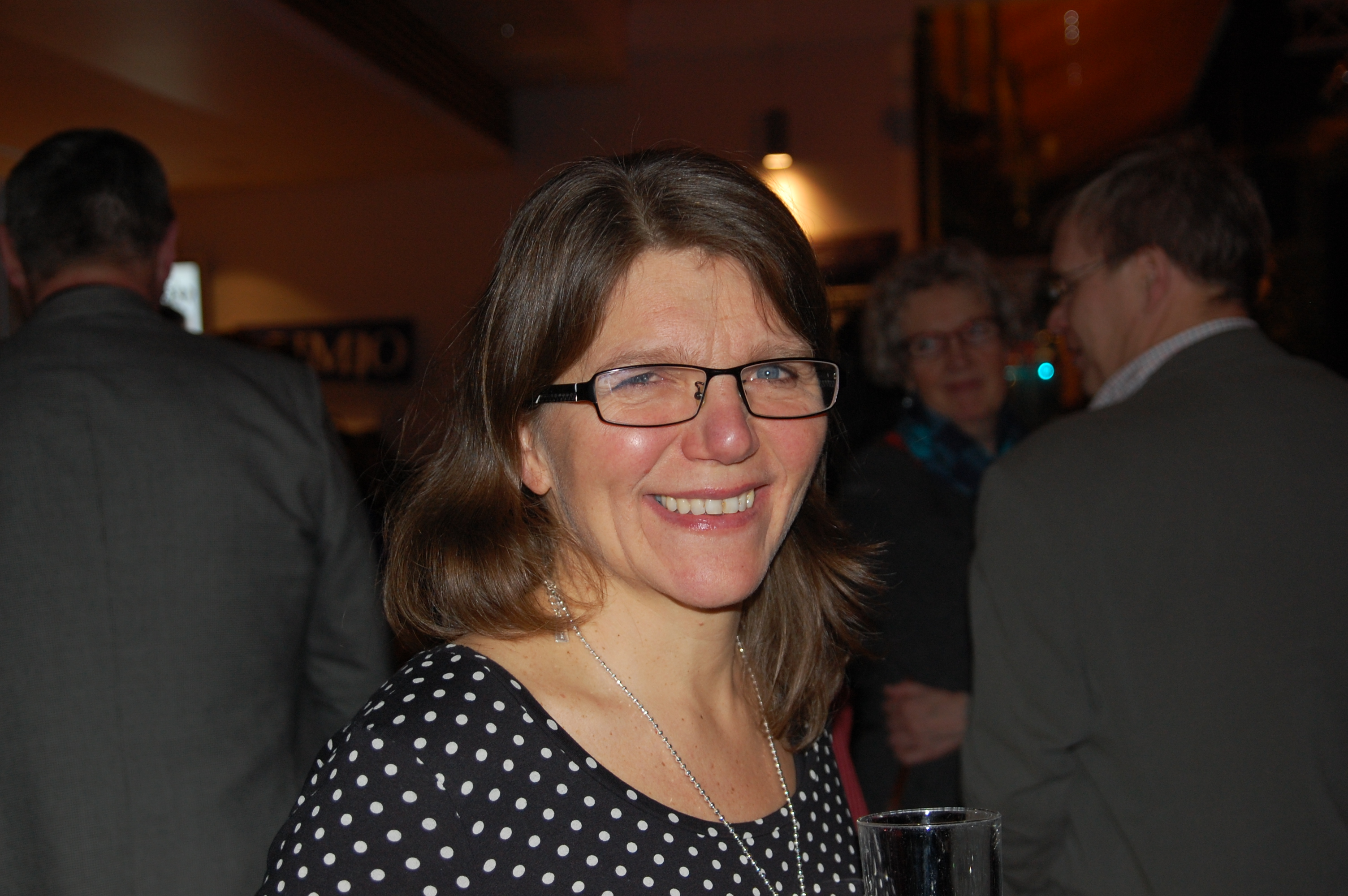 Astrid Kruukka, Meänmaa